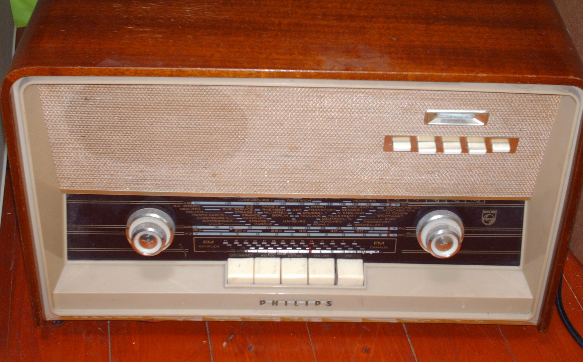 An old Radio from the fifties.